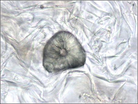 Carl Szczerski, Fresh mount slide, no internet source, created by myself for a laboratory tuitorial